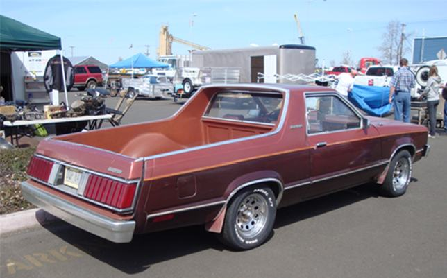 Ford Durango, circa 1980 model.